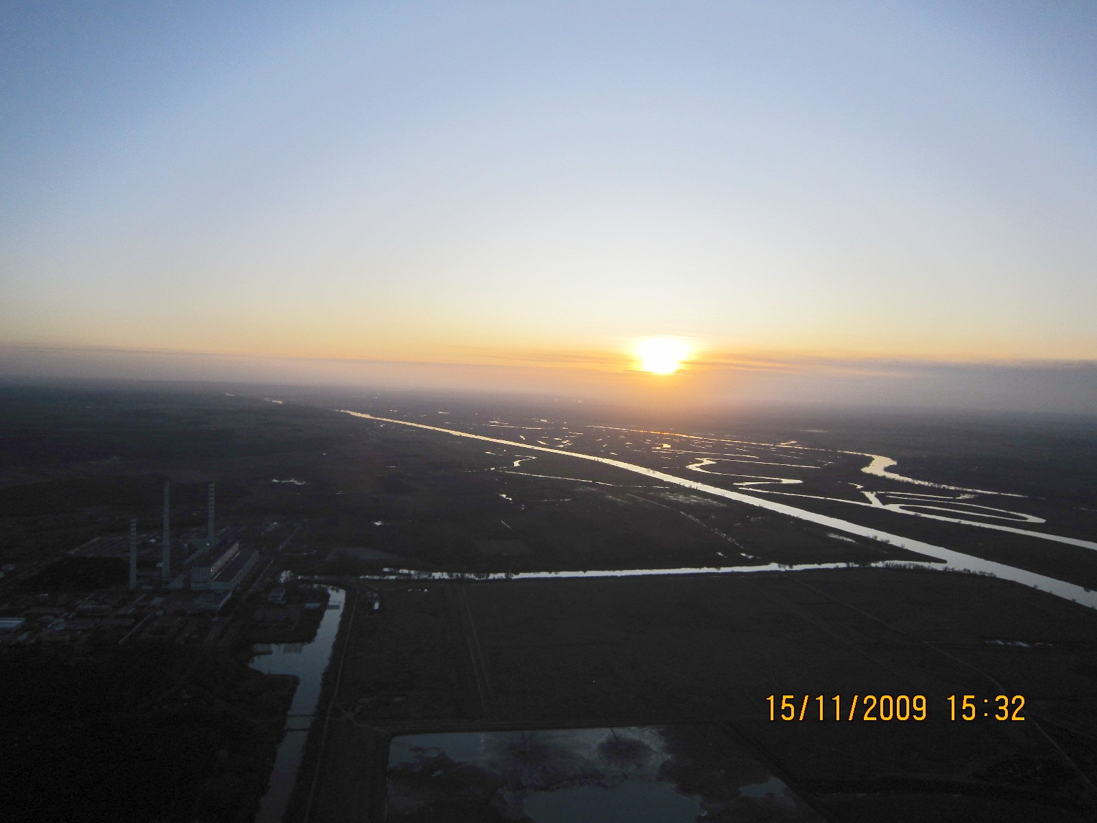 PGE Dolna Odra Power Plant, Poland